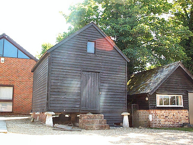 Preserved Barn, Corfe Mullen. In the grounds of Castle Court School - note concrete mushroom stands at each corner